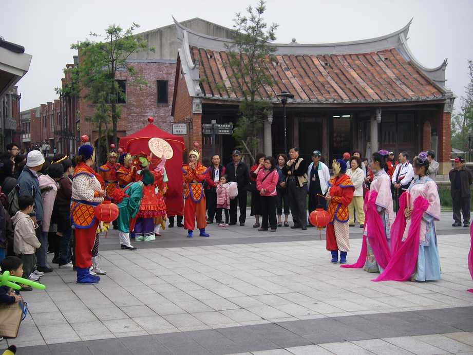 The students' performance of Taiwanes Opera in the National Center for Traditional Art in Yilan, Taiwan. 中文（台灣）: 台灣宜蘭傳統藝術中心裡，由劇院學生所表演的台灣歌仔戲